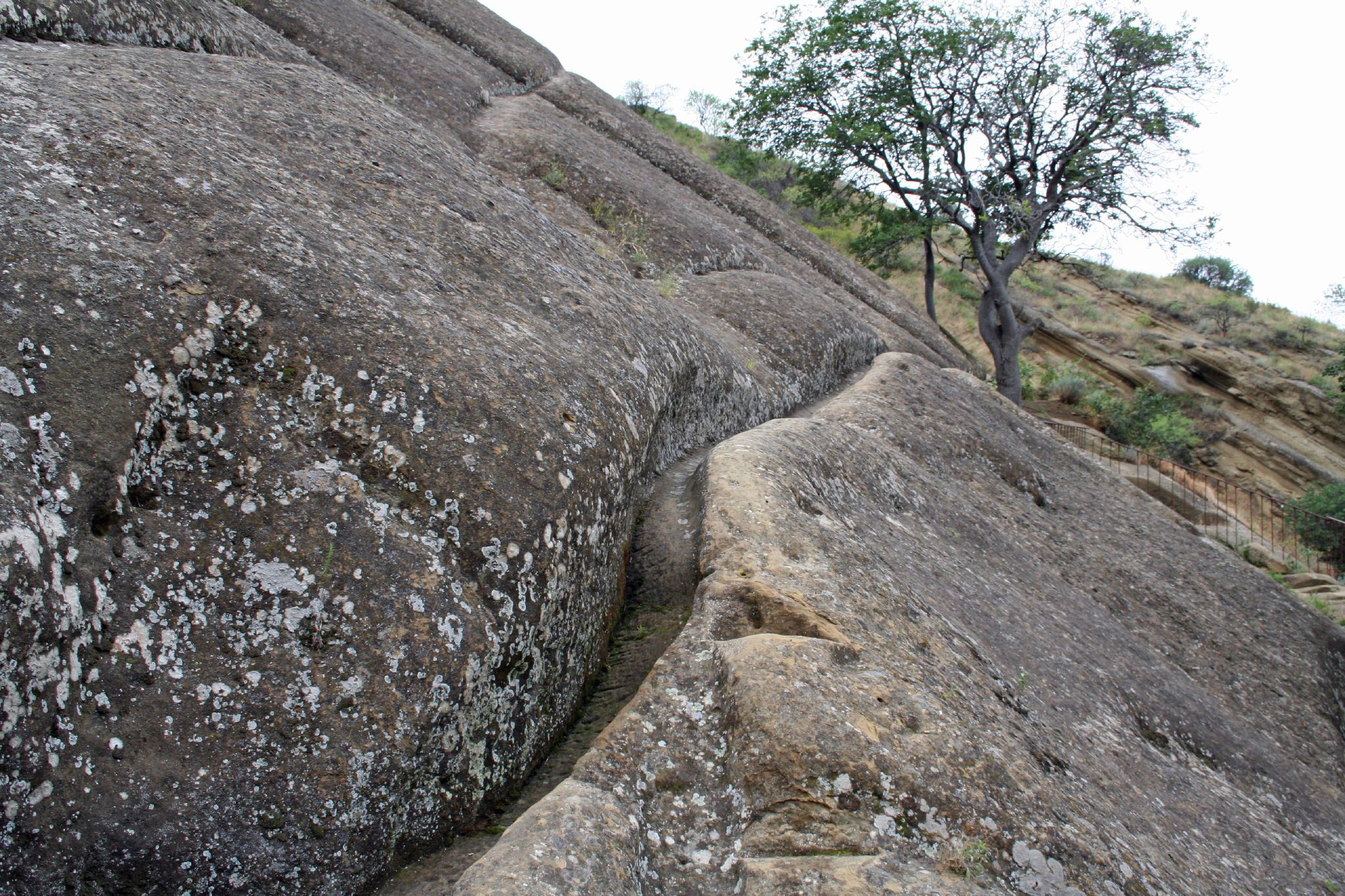 Water collecting system in David Garedzha